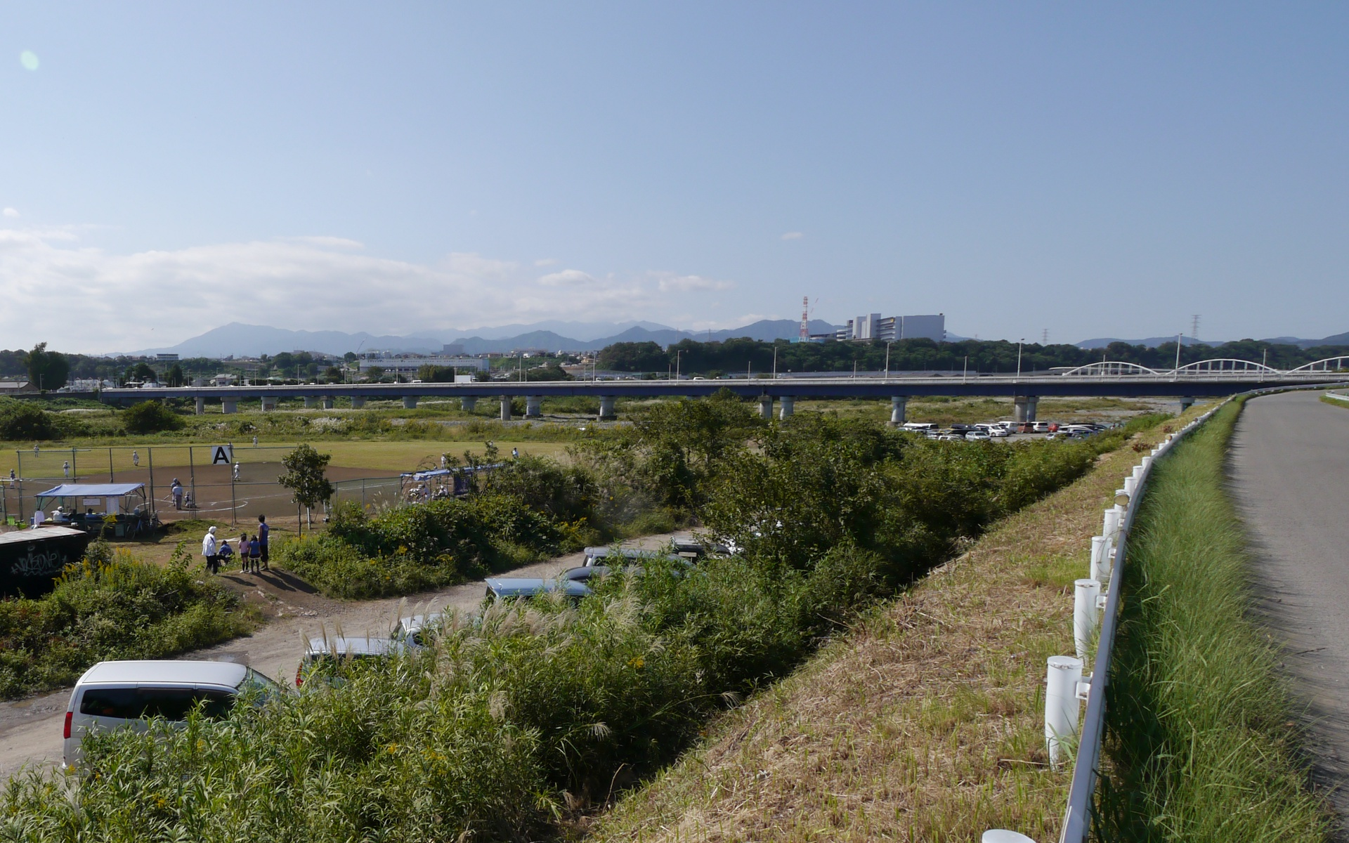 Showa-bashi (Showa Bridge), Sagamihara, Kanagawa, Japan